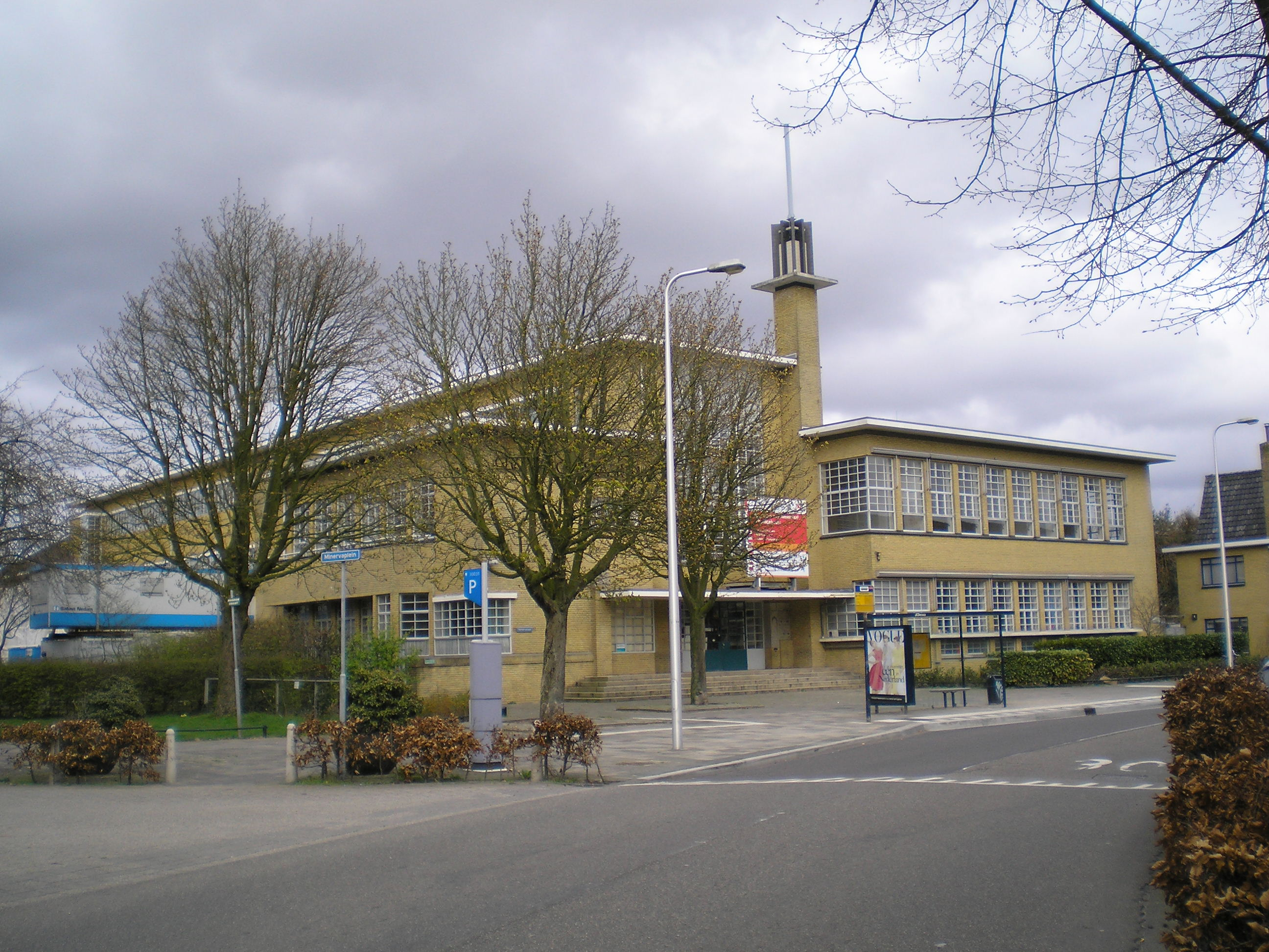 Dependance Maliebaan School on Homeruslaan in Utrecht in the Netherlands